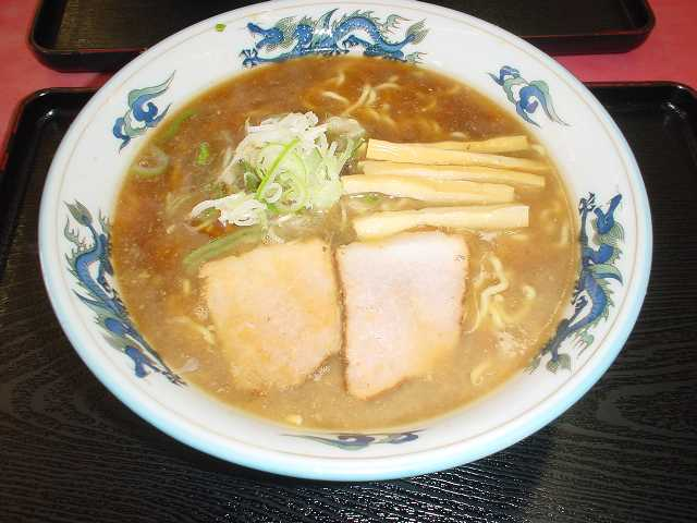 Asahikawa ra-men